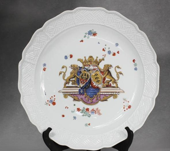 Talerz z serwisu Sulkowskiego. Meissen 1735-1737 rok